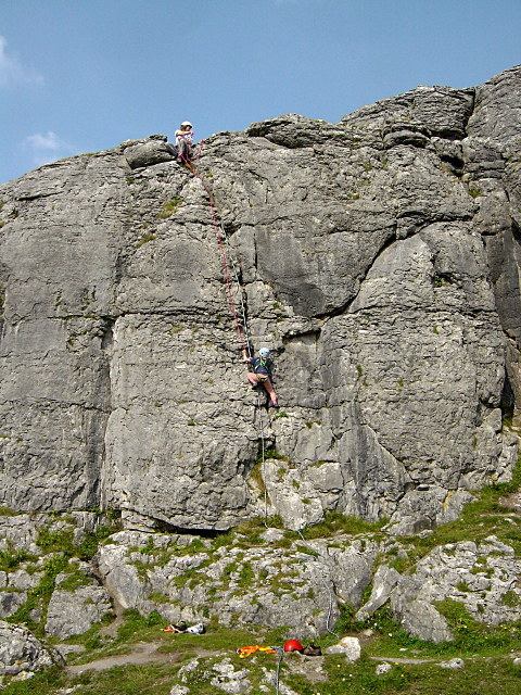 Right Crack at Ballyryan Crag (just above Ailladie). Ballyryan is a perfect little limestone crag for holiday climbing with the kids. Almost south-facing, quick drying and sunny, just a nice height for single-pitch climbing and a range of grades. "Right Crack" is just V.Diff., and under 15m, but there are routes up to 5c to test the aspiring tiger.